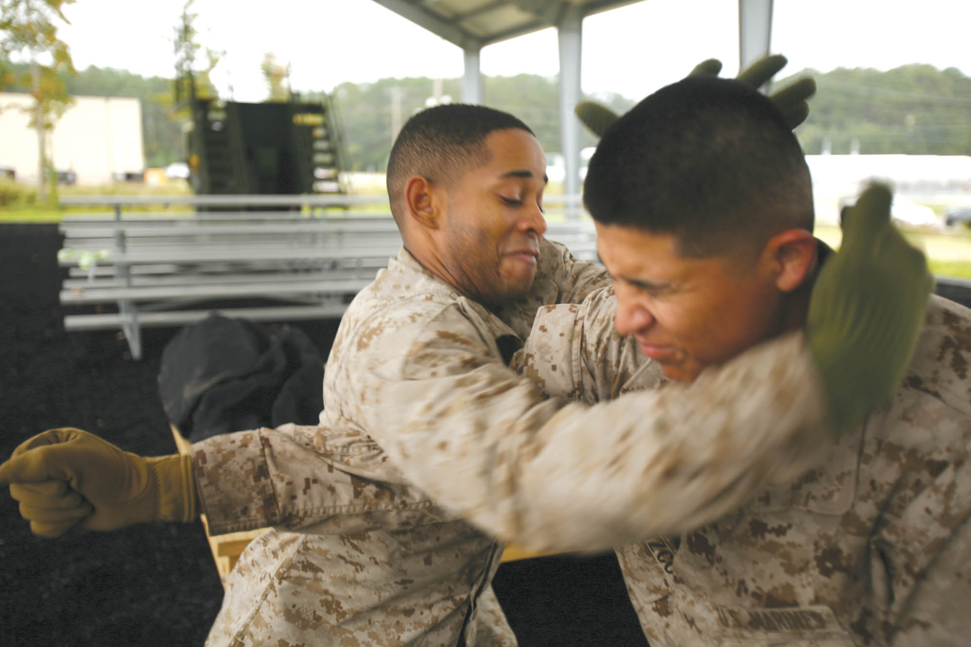 Lance Cpl. Matthew Walker, a postal clerk with Headquarters and Headquarters Squadron, delivers a knee strike to Lance Cpl. Hector Verduzco, an administration clerk with the Installation Personnel Administration Center, at the new Marine Corps Martial Arts Program training pit. They both were a part of the first class to train in the new pit.